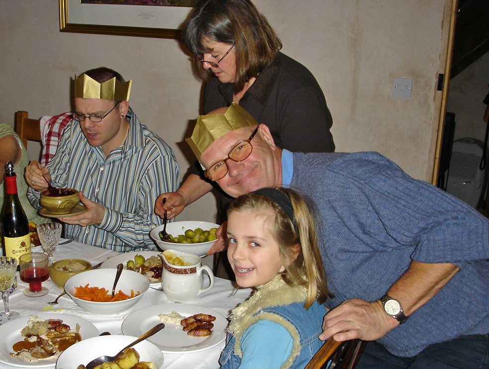 Participating in a traditional English Christmas Day lunch.